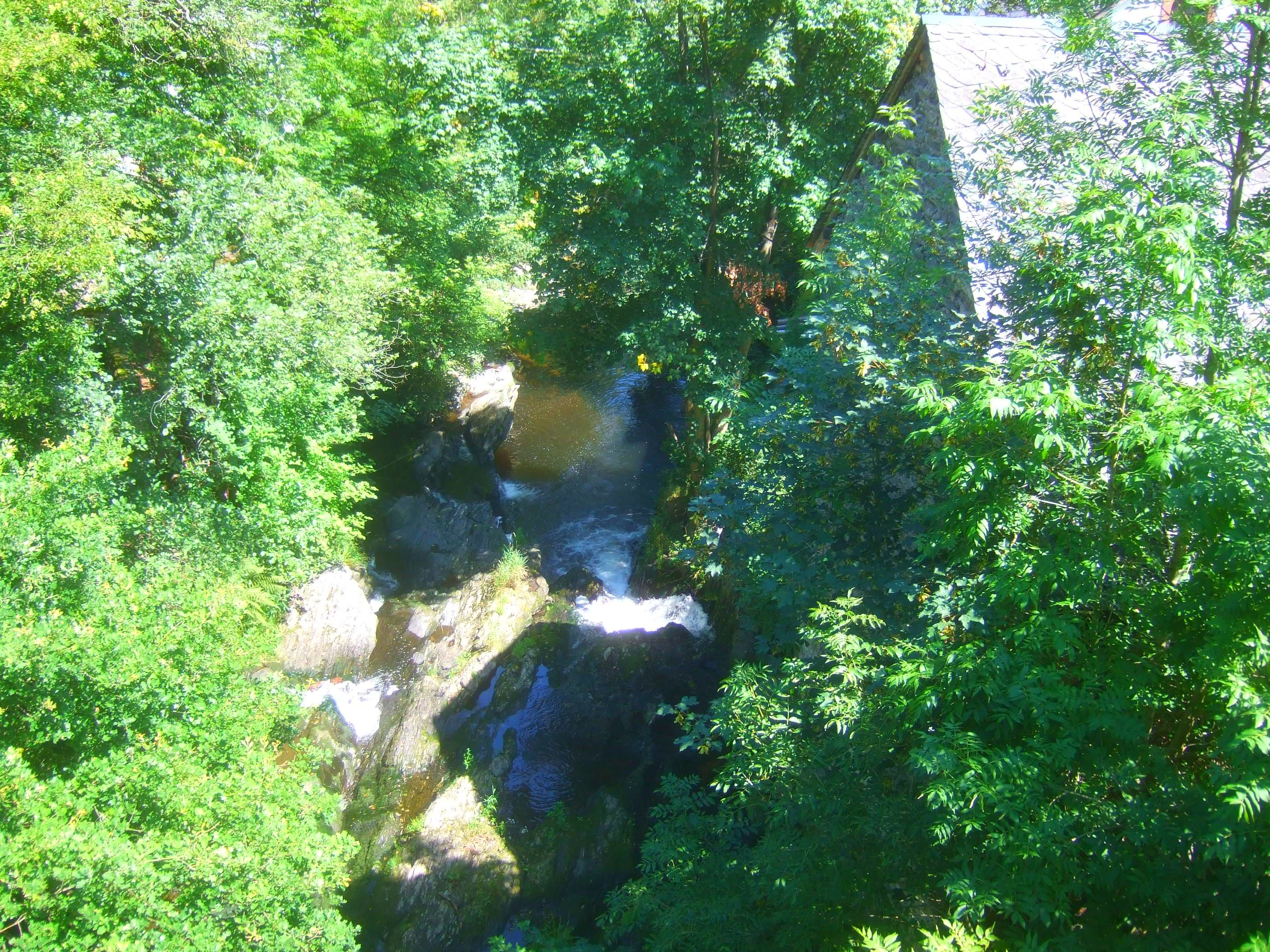 Sommerauer Wasserfall